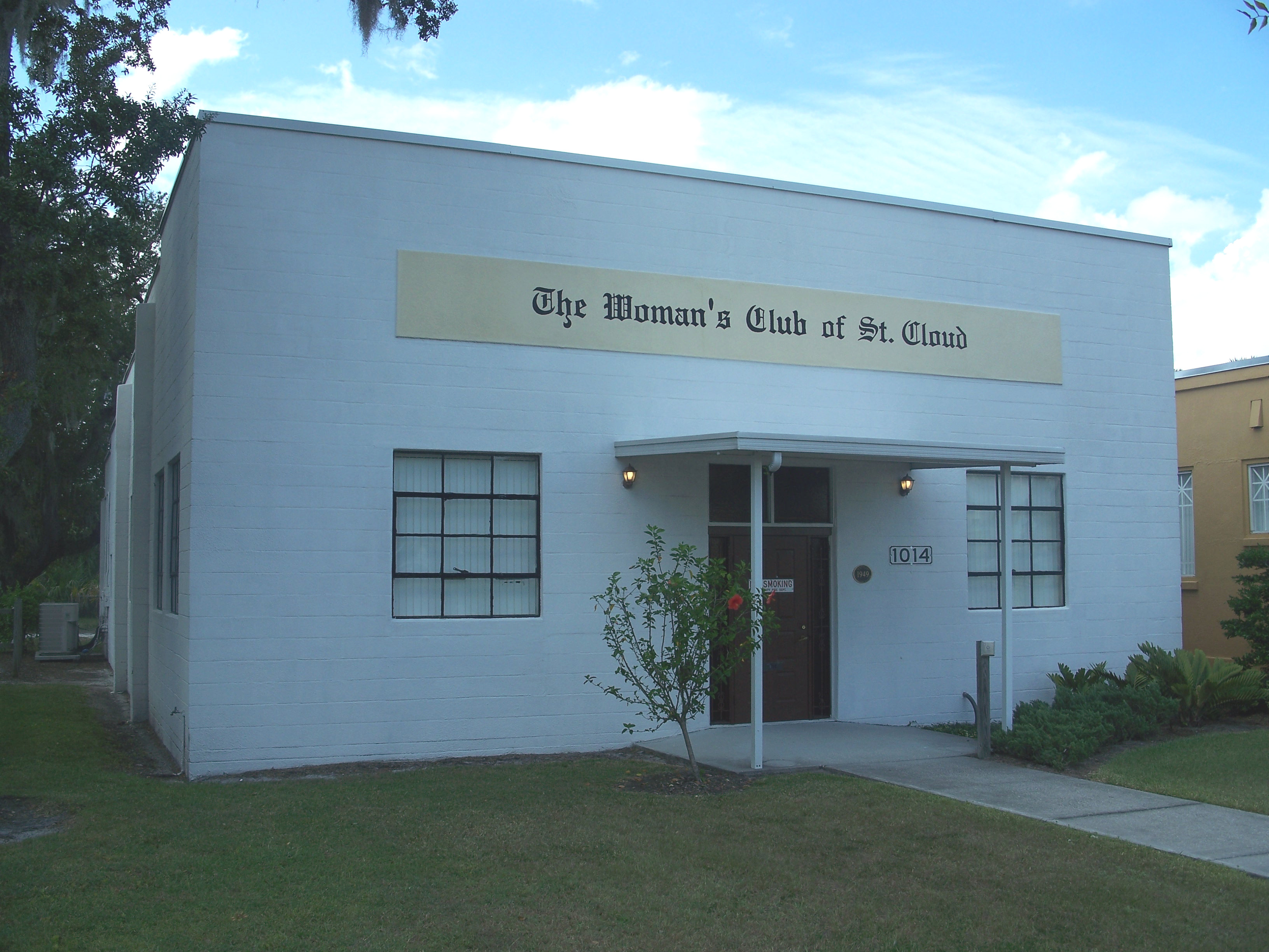 St. Cloud, Florida: Woman's club